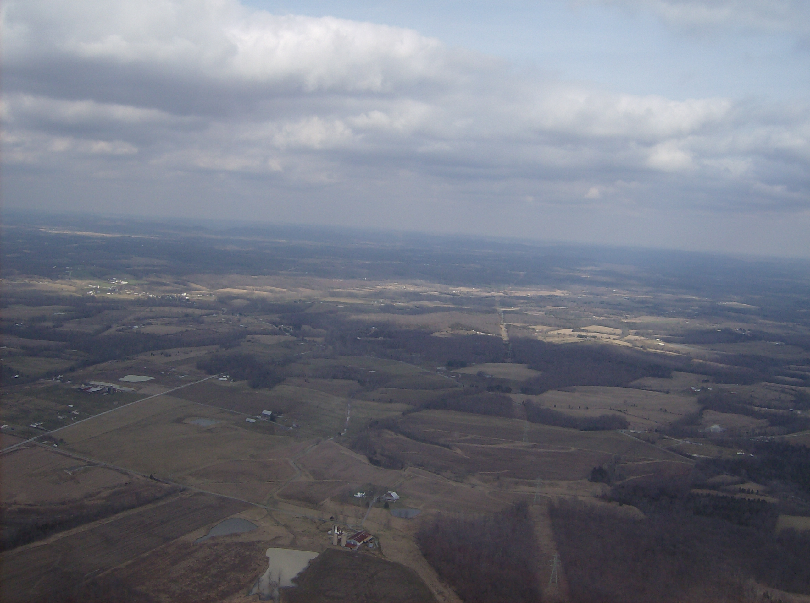 Countryside in southern Jackson Township, Highland County, Ohio, United States, between Fairfax and Belfast. On the right, running under the high-voltage power line, is Locust Road, while the road on the left is State Route 785. Picture taken from a Diamond Eclipse light airplane at an altitude of 2,550 feet MSL and a bearing of approximately 86º.